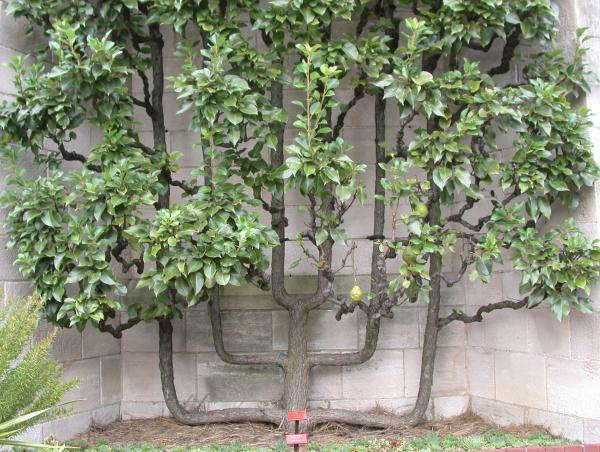 Espaliered pear tree (Pyrus communis), in the garden of the Cloisters in upper Manhattan. This picture was found in the English Wikipedia released under the terms of the GNU Free Documentation License. Posted in Commons Wikimedia by --gian_d 12:04, 16 December 2006 (UTC)